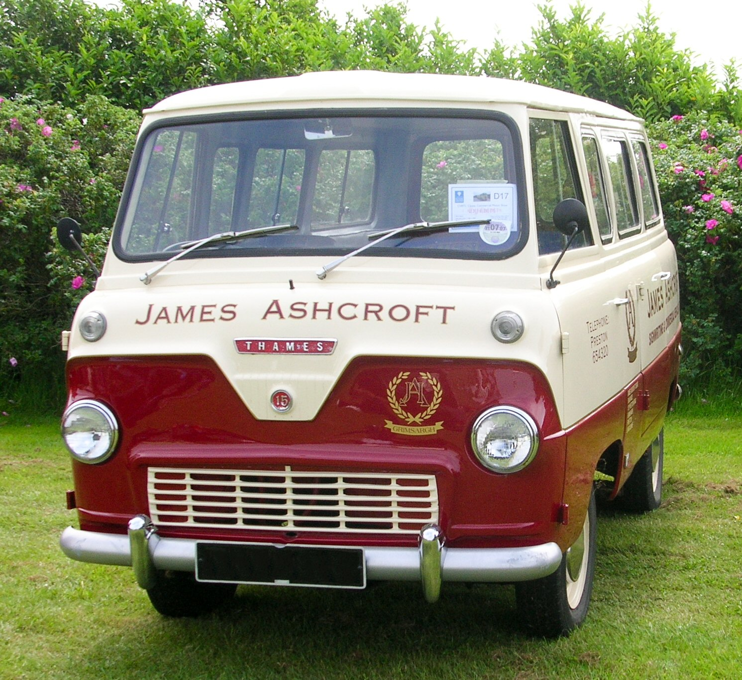 A 1964 Ford Thames 400E minibus. This vehicle was photographed attending the 2007 Classic Commercial Motor Show at the Heritage Motor Centre, Gaydon, UK.